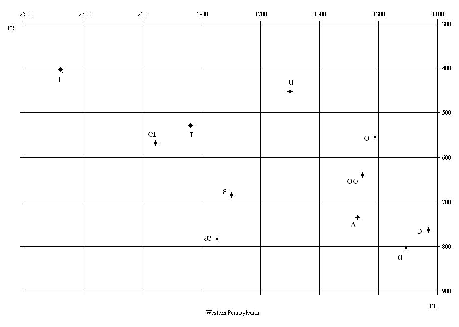 The vowel space of Western Pennsylvania; based on data from Labov et al., The Atlas of North American English